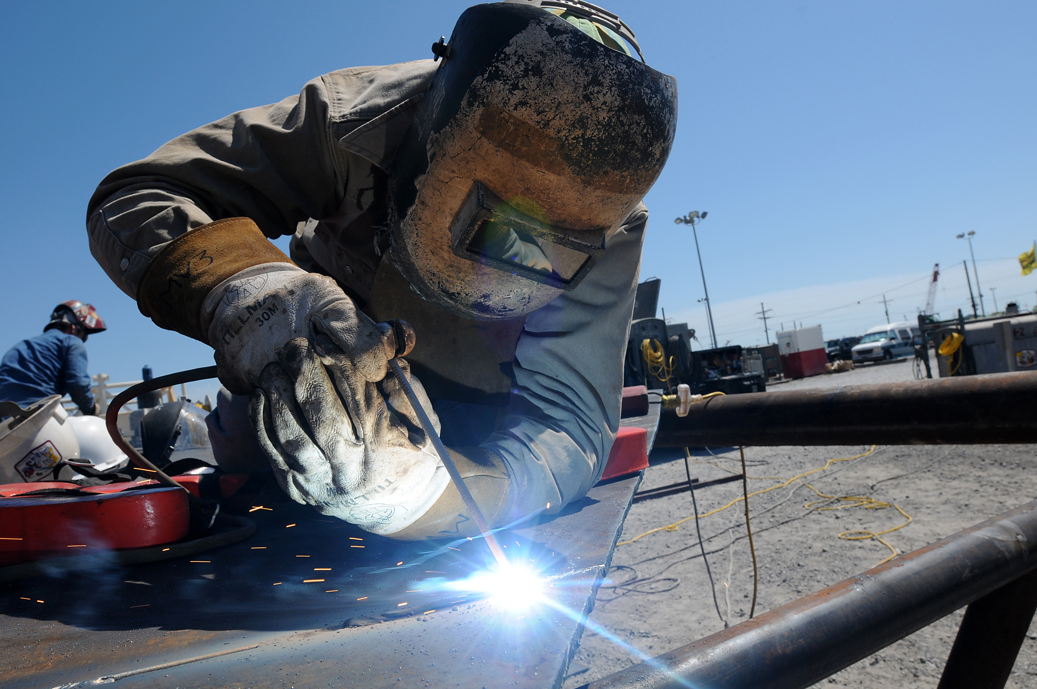 A welder fabricates a portion of the BP subsea oil recovery system chamber at Wild Well Control, Inc. in Port Fourchon, La., April 26, 2010. The chamber will be one of the largest ever built and will be used in an attempt to contain an oil leak related to the mobile offshore drilling unit Deepwater Horizon explosion.